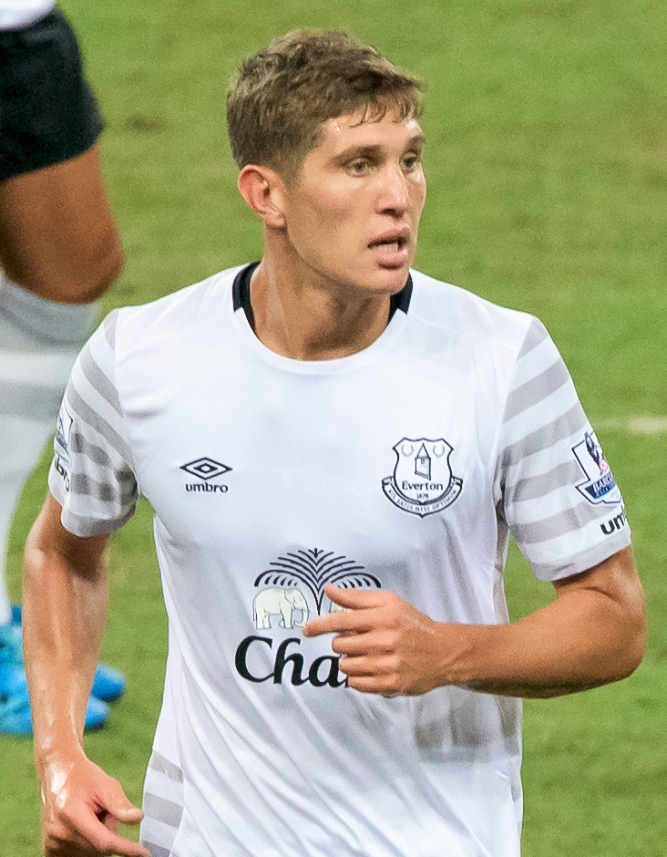 John Stones (FC Everton) during Premier League Asia Trophy 2015